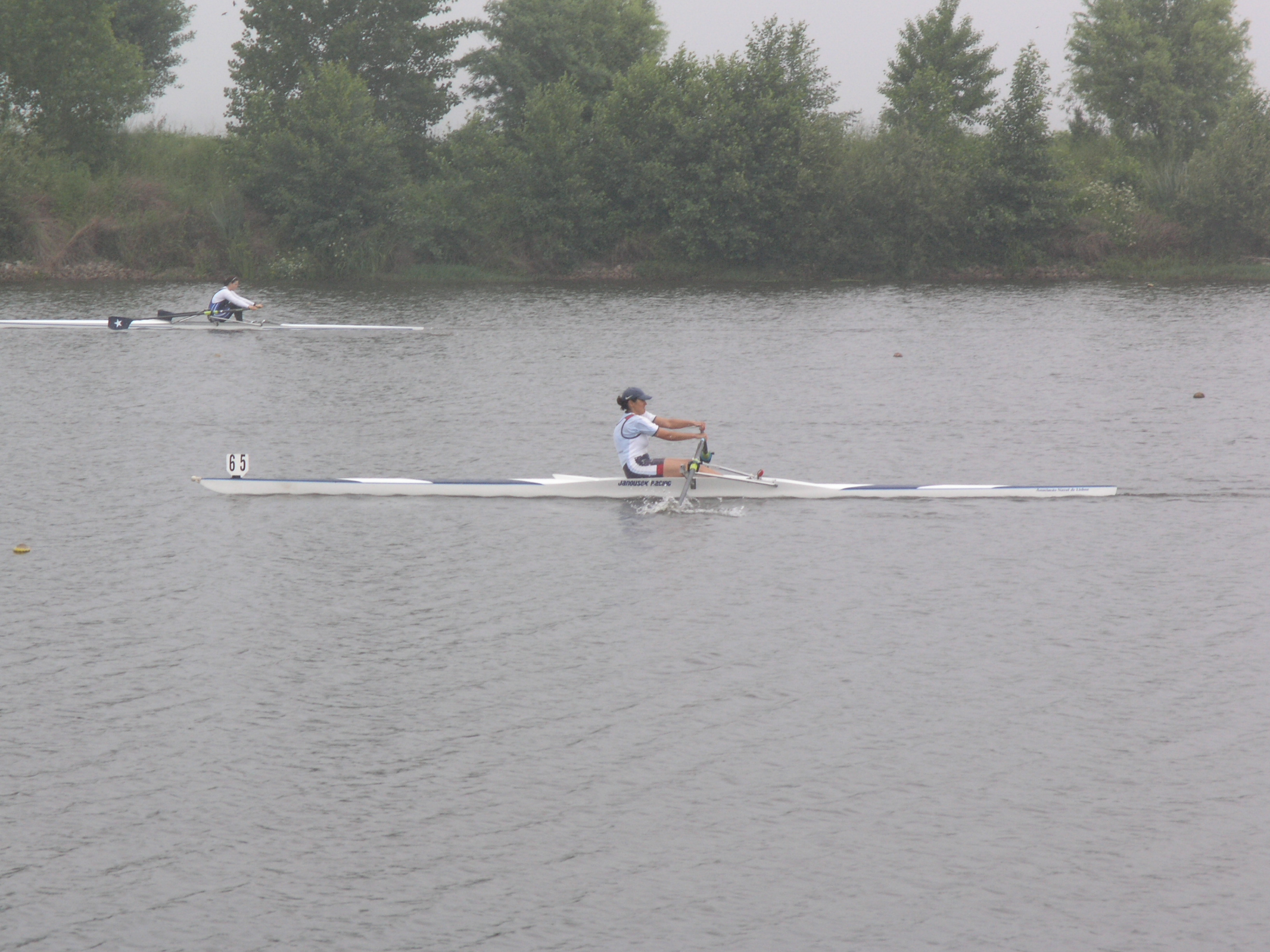 Ana rowing in Montemor-O-Velho.